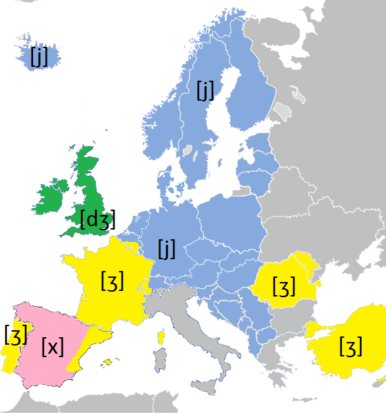 Pronunciation of written in European languages